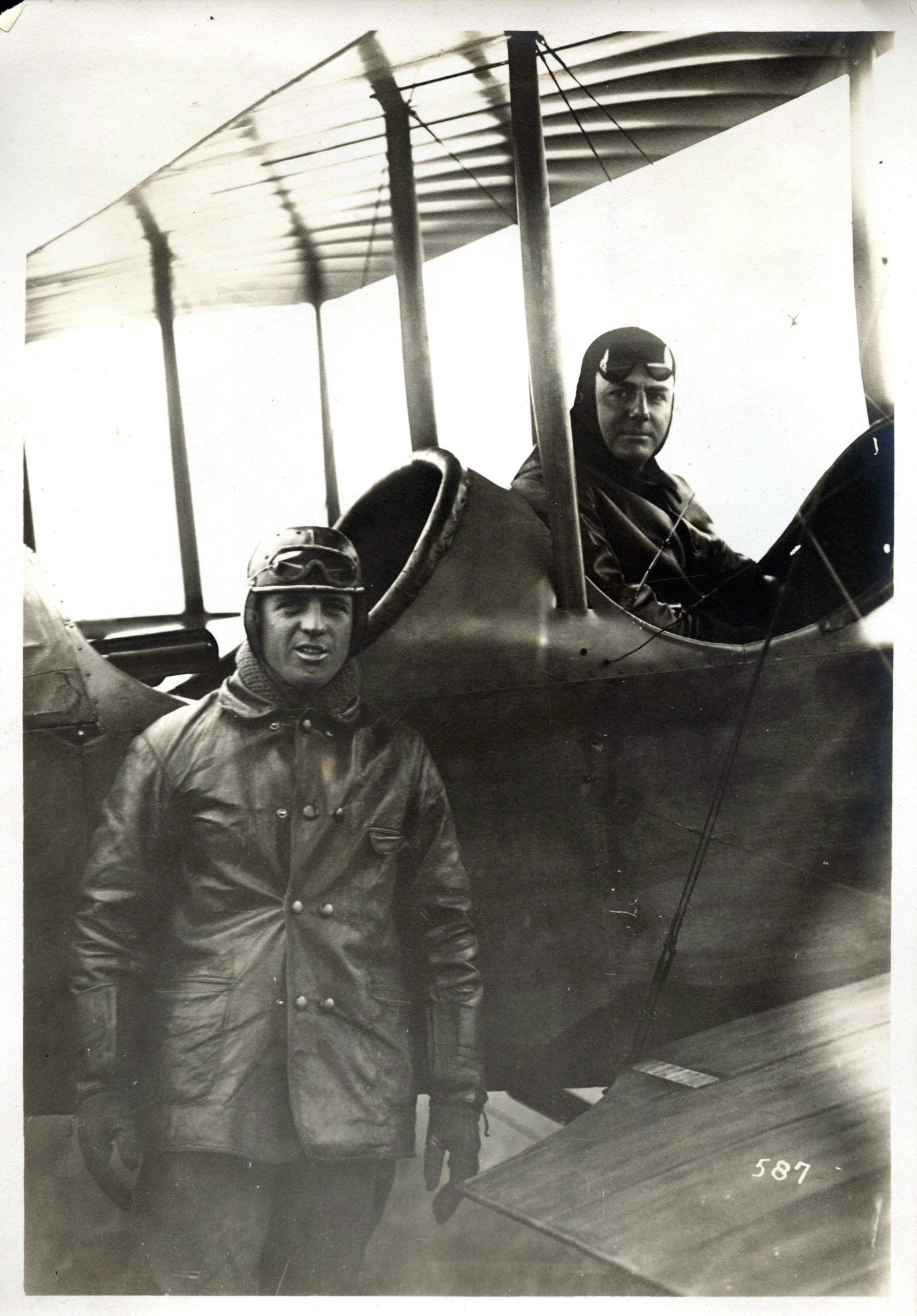 Lt. Harry Gantz is standing on the ground next to the airplane and Oscar Brindley is sitting in the cockpit of the plane at the Signal Corps Aviation School at Rockwell Field, North Island, San Diego CA., 1915.